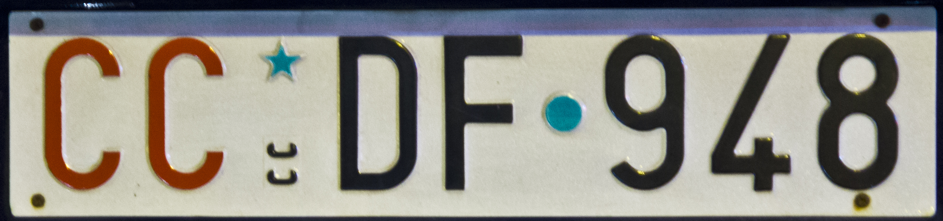 Registration Plate of Corpo di Carabinieri